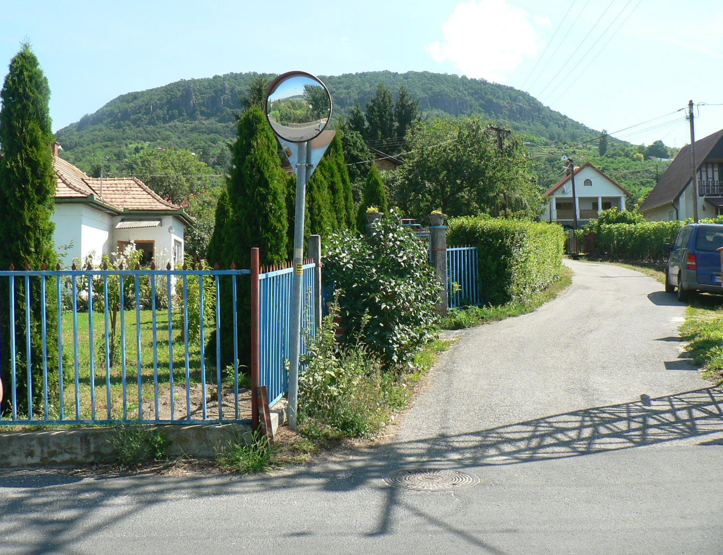 Badacsonylábdihegy - a római út egy elágazása